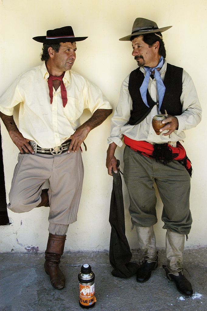 Gauchos drinking mate